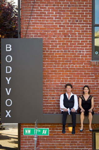 Jamey Hampton and Ashley Roland at the BodyVox Dance Center photographed by Michael Shay